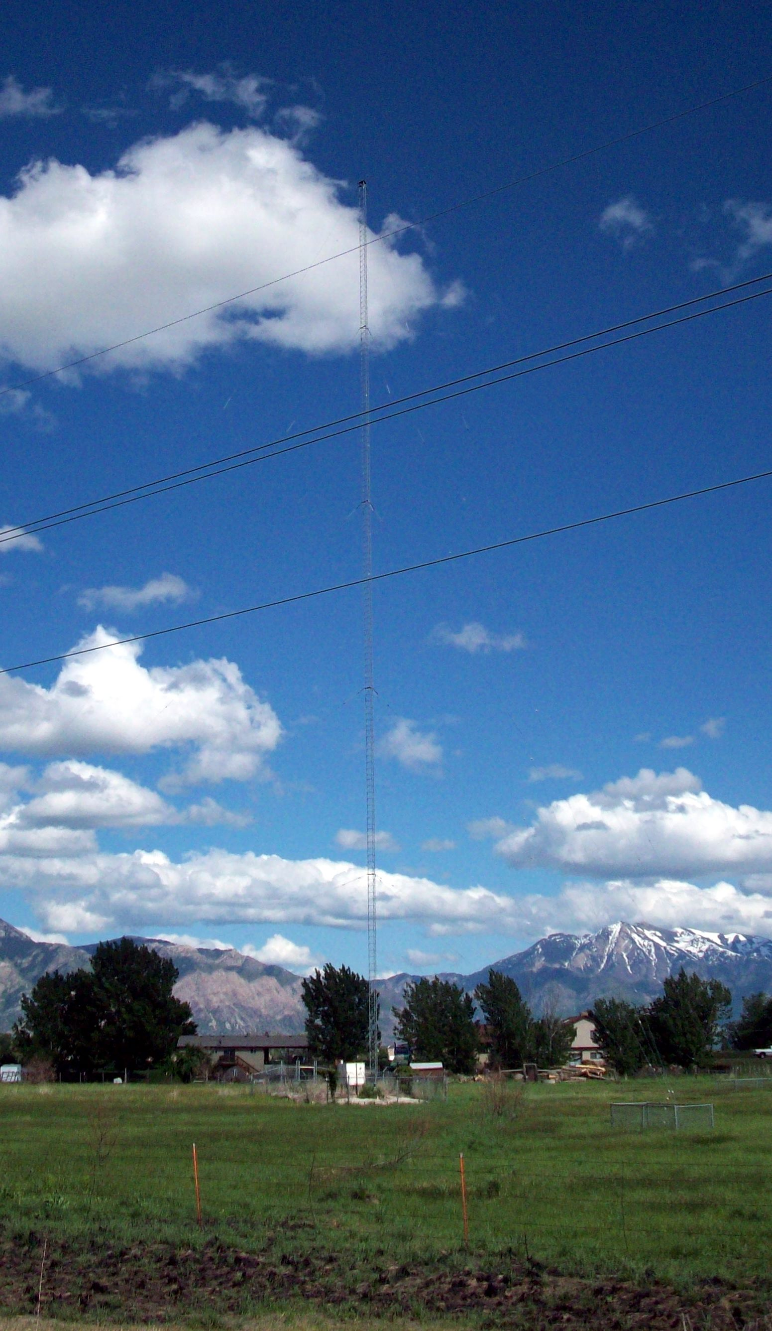 The radio tower for KXOL AM Brigham City, located in Weber County near Plain City.